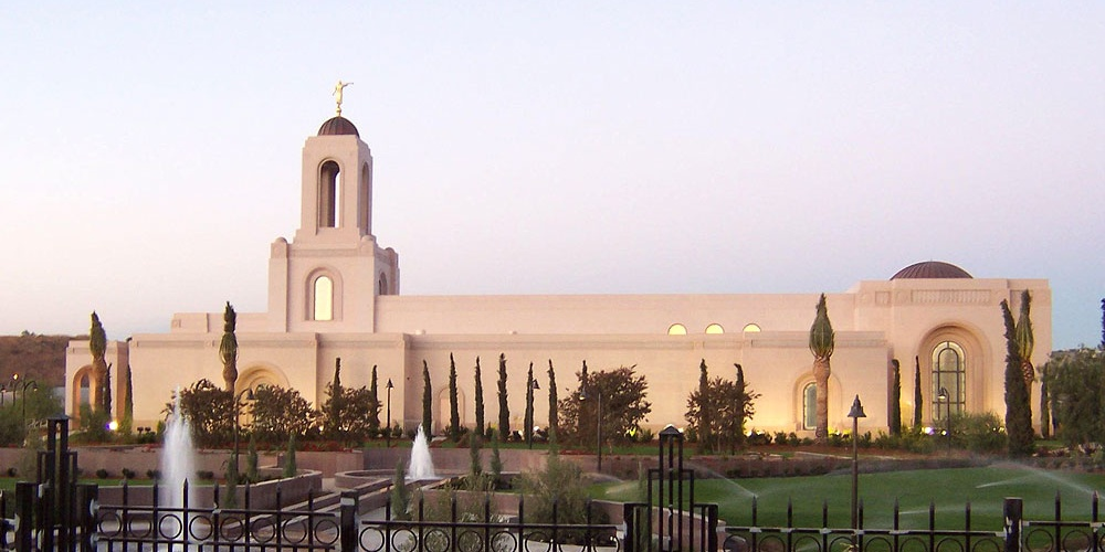 Photograph of the Newport Beach California Temple of The Church of Jesus Christ of Latter-day Saints. Taken summer 2005.